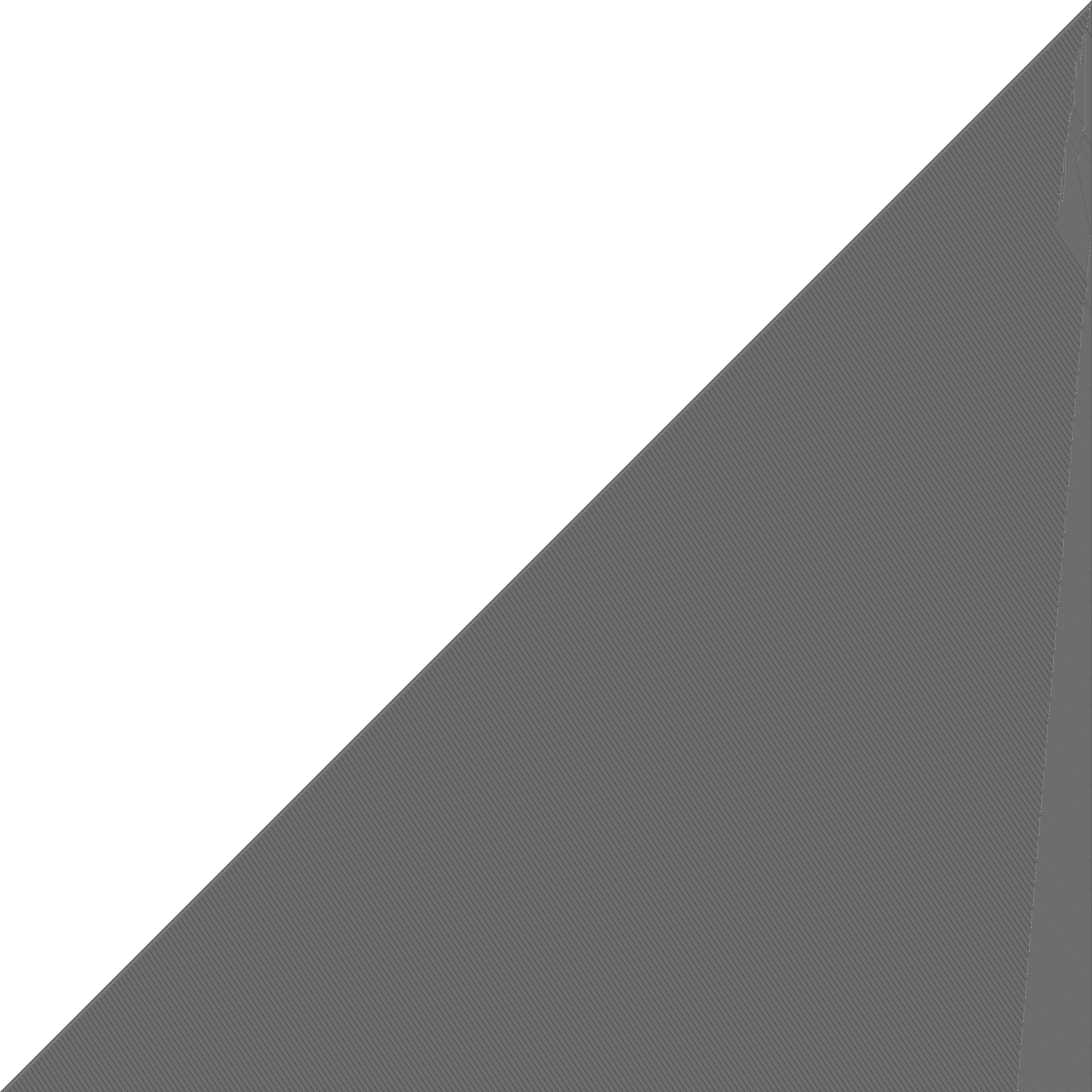 See below.